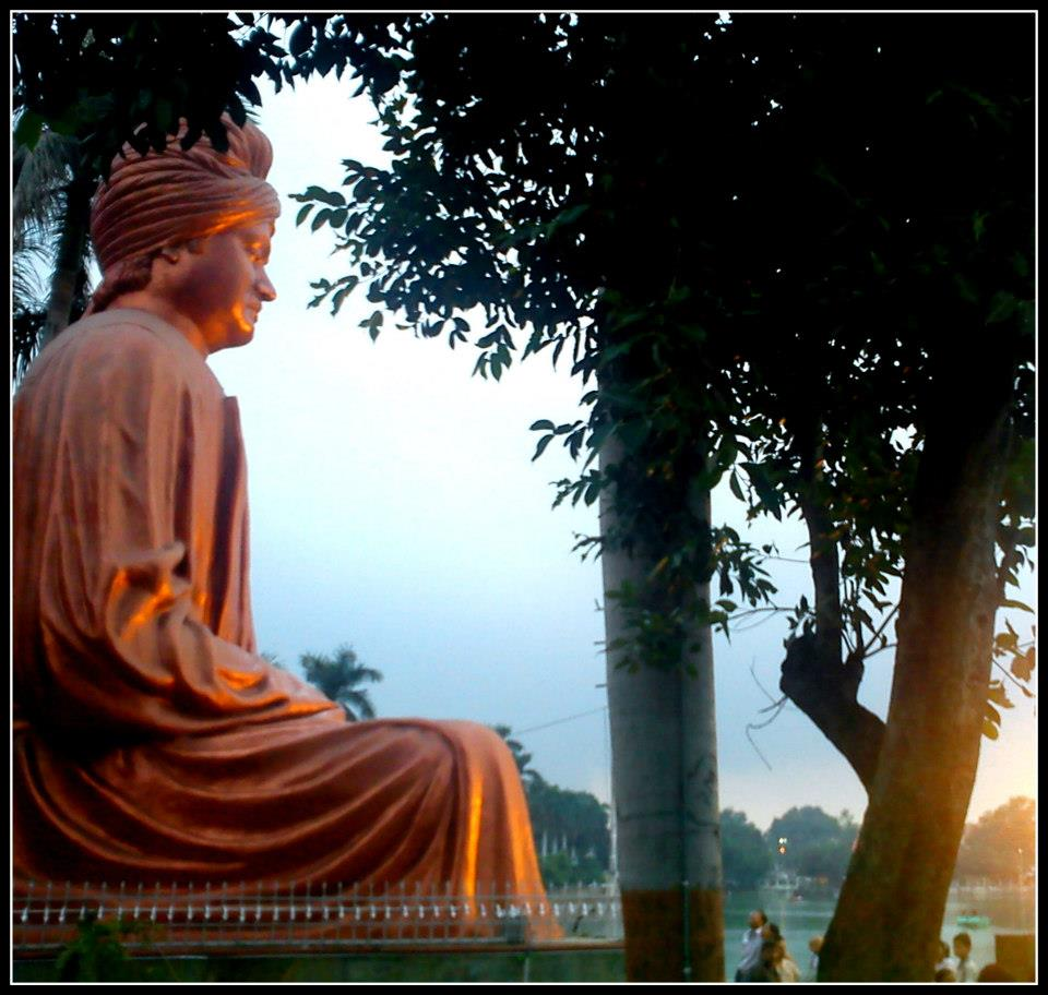 Swami Vivekanada's Statue at Vivekanand Sarovar